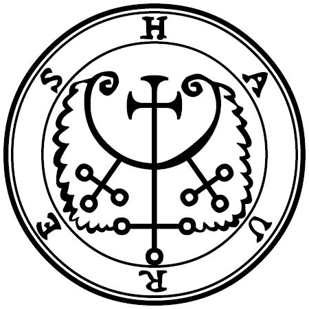 Haures seal, THE BOOK OF THE GOETIA OF SOLOMON THE KING (1904)